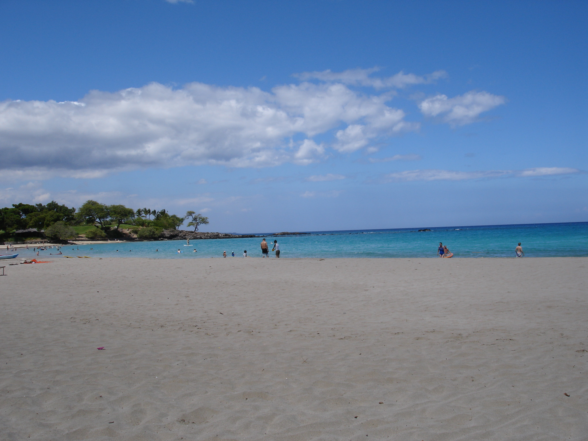 A view of the Mauna Kea Beach (Kaunaʻoa Bay). Big island of Hawaiʻi.